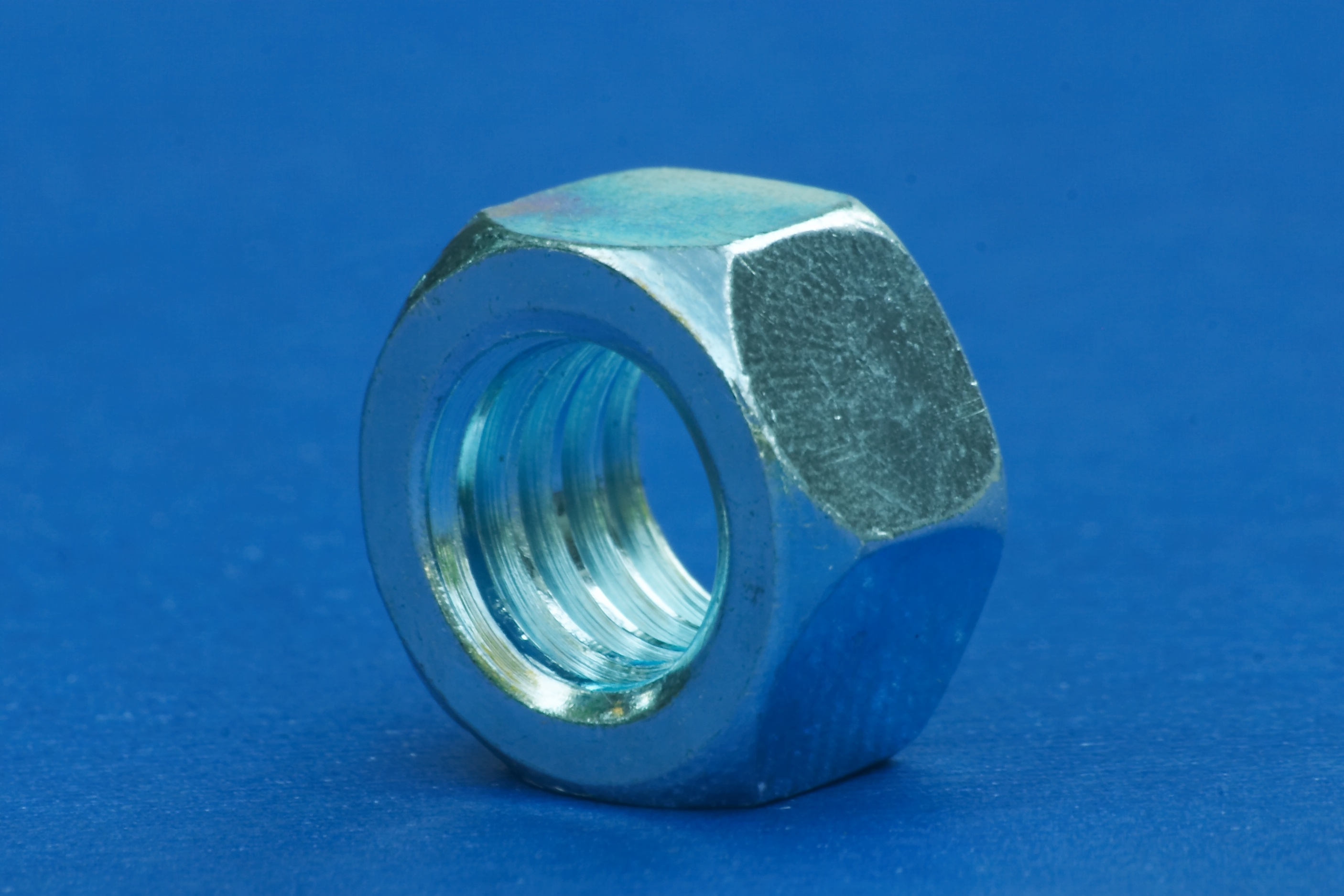 Nut